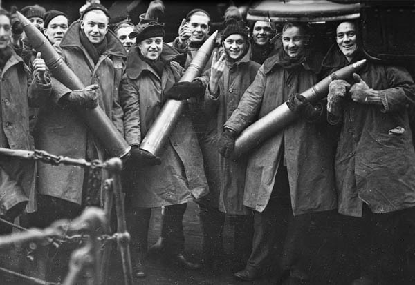 Reproduction ID: AD13975 Maker: Unknown Date: 1940s This photograph is featured in Arctic Convoys, a new photographic exhibition looking at the experiences of those who served on the Arctic Convoys. It's on at the National Maritime Museum until 4 November 2012